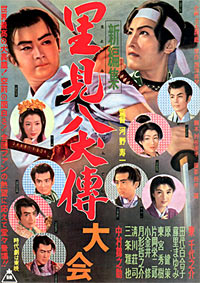 Movie poster for 1954 Japanese movie Sorcerer's Orb (里見八犬伝 第一部 妖刀村雨丸 Satomi Hakkenden-Dai Ichibu).